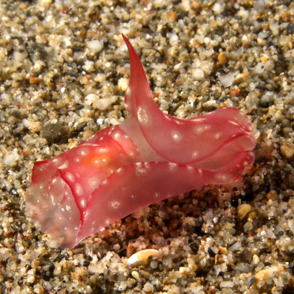 Philinopsis sp. Aglajid